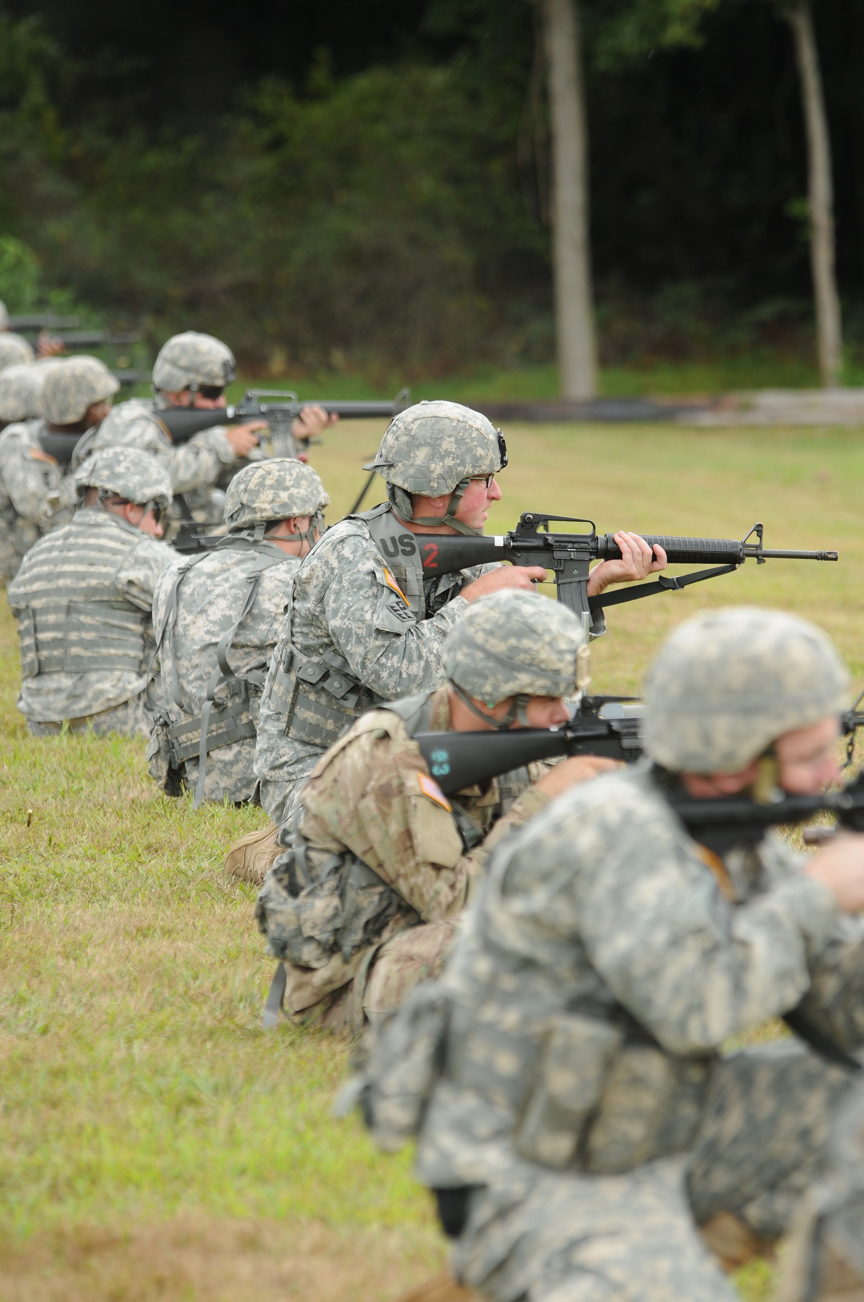 Members of the Delaware National Guard compete to in a combined shooting match for points and a Governor's Twenty Tab at River Road Training Site, Sept. 12, 2015, New Castle, Del. (U.S. National Guard Photo by Staff Sgt. James Pernol, released) Unit: Delaware National Guard Public Affairs DVIDS Tags: Photography; Guard; Patch; photo; Senator; Shooting; Museum; Delaware; Portrait; Historic; Central; VPOTUS; Photographer; Military; Air Force; Rifle; Pistol; USA; Governor; Army; National Guard; Tom Carper; pictures; Chris Coons; Jack Markell; Twenty